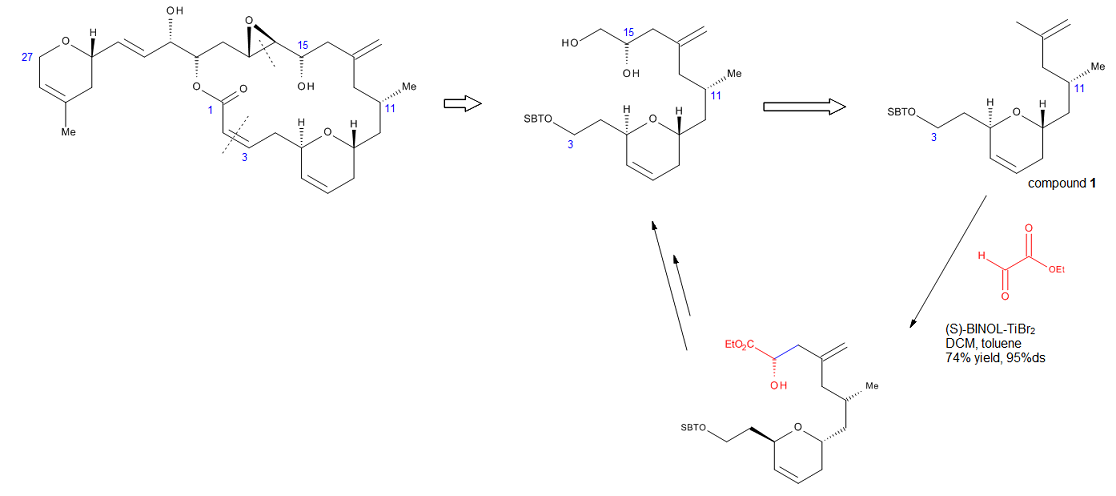 new fig 14